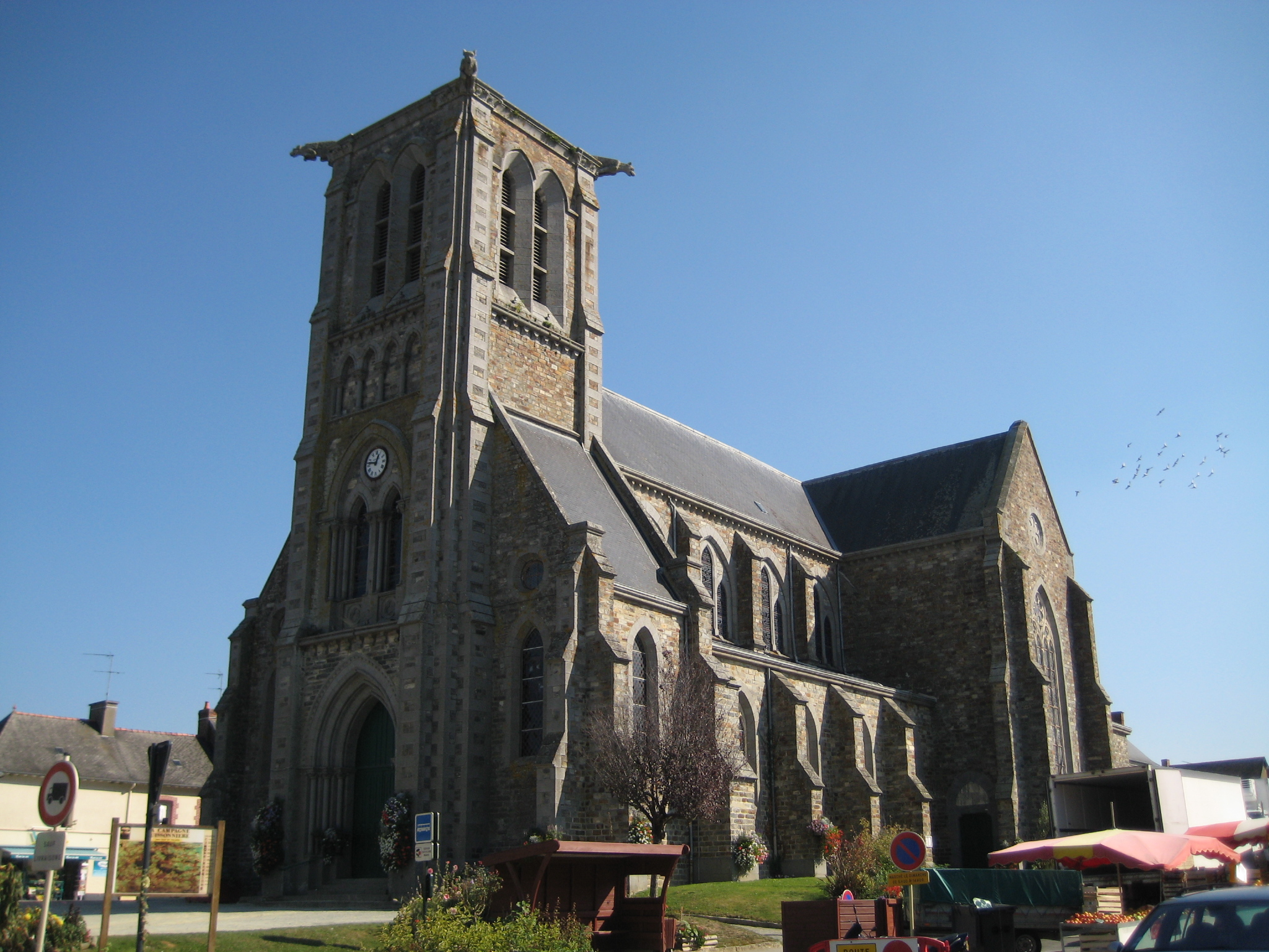 Church of Servon-sur-vilaine